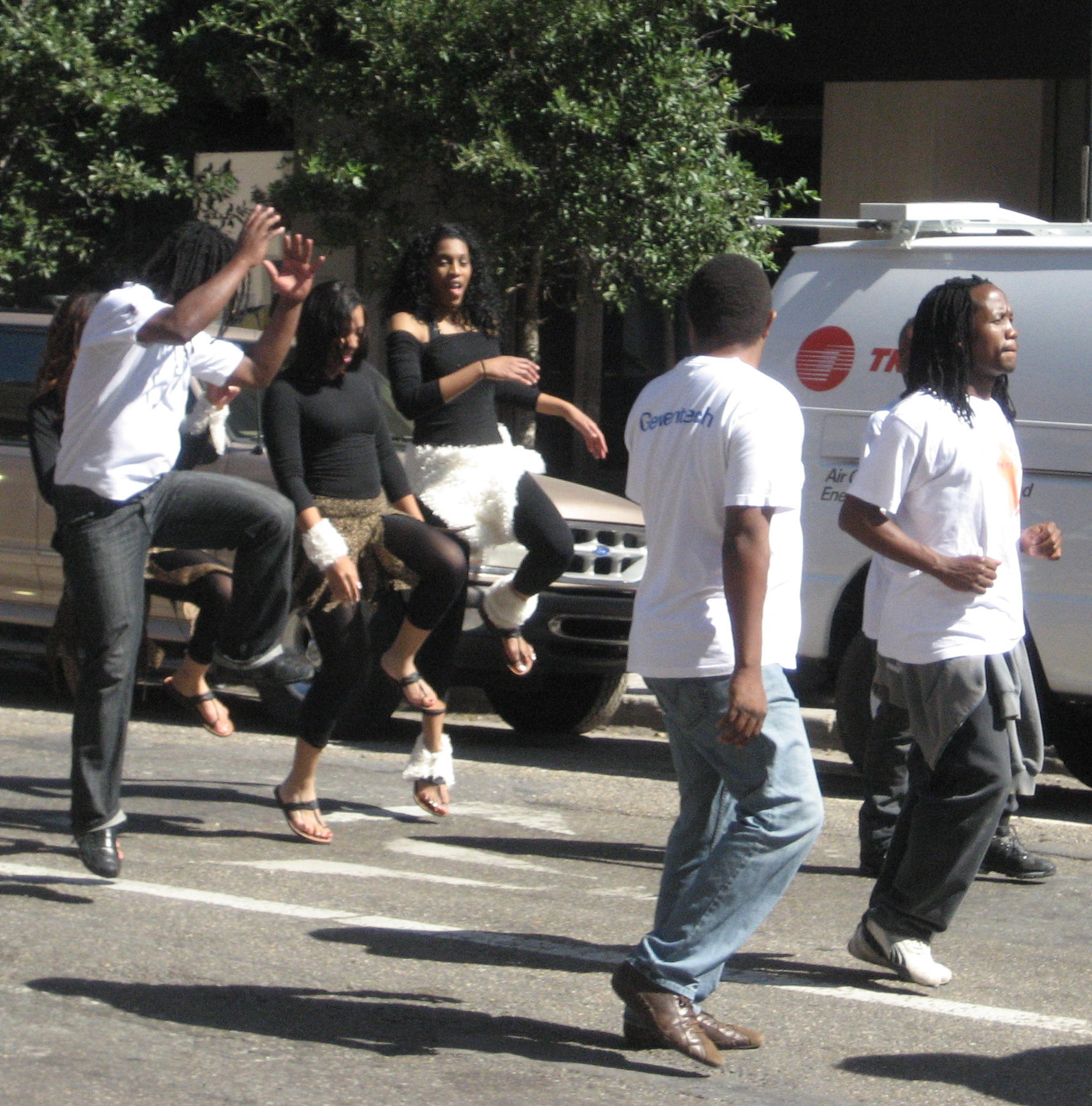 Dancers at small "Second Line" parade in the New Orleans Central Business District